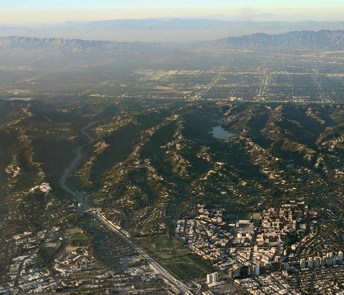 A crop from File:Westwood, Century City, Santa Monica Mountains.jpg showing the Bel Air neighborhood of Los Angeles, immediately north of UCLA along I-405, where the Skirball Fire is burning in early December 2017. The lake is Stone Canyon Reservoir.